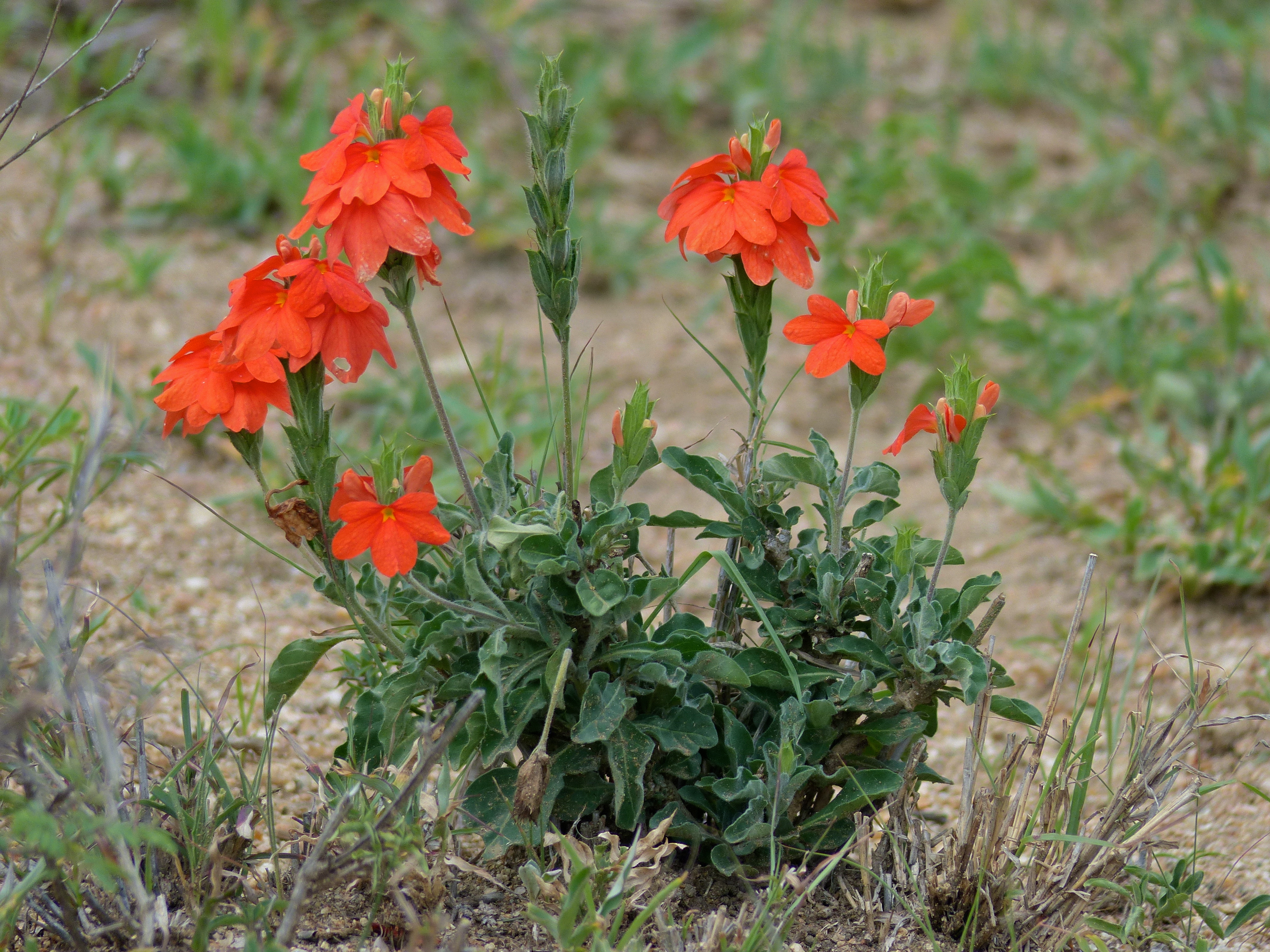 H7 Road East of Orpen, Kruger NP, SOUTH AFRICA